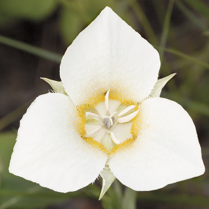 Calochortus apiculatus. Two Medicine Lake, Glacier National Park, MT, USA. July 16